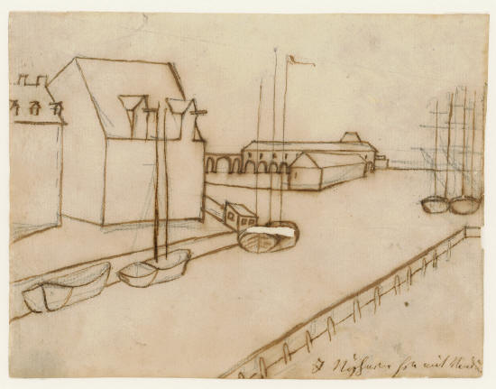 Frawing by Hans Christian Andersen of his view from Nyhavn 20 in Copenhagen, Denmark